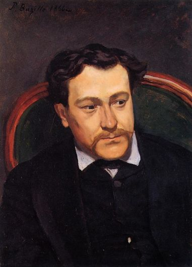 Oil painting reproduction of Frédéric Bazille.